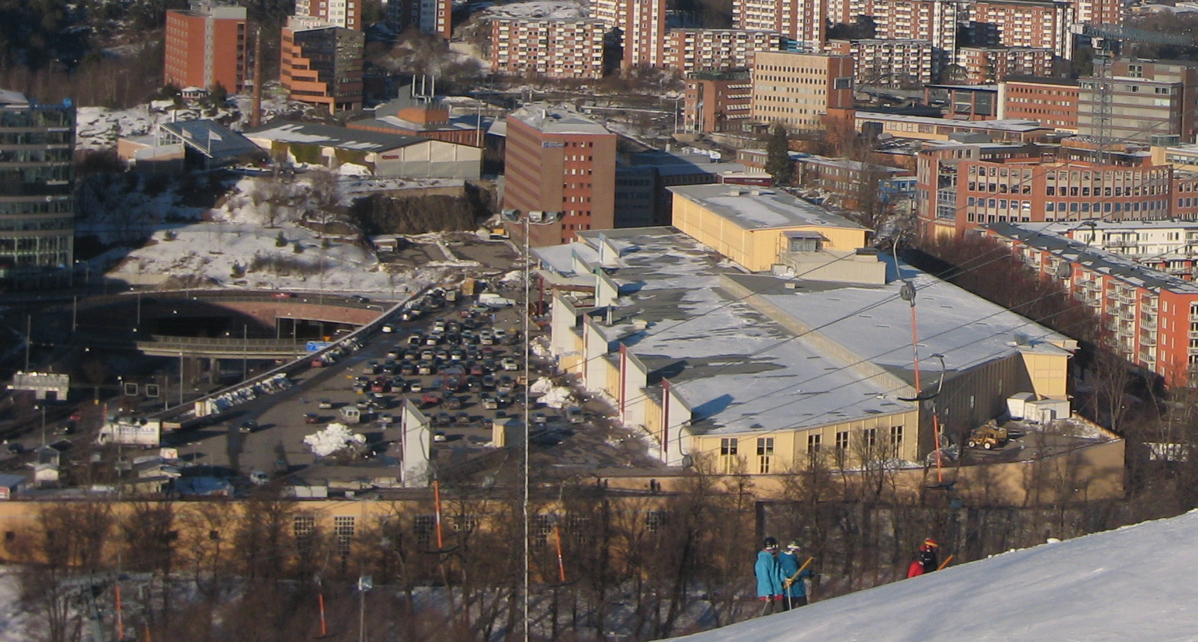 Fredells byggmarknad.